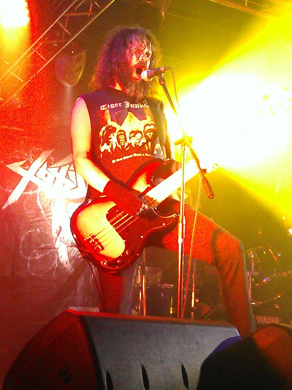 Phil Zeller a.k.a. Philthy Gnaast (b. 1976), bassist of the American thrash metal band Toxic Holocaust, performing at the "Zal Ozhidaniya" club in Saint Petersburg, Russia.